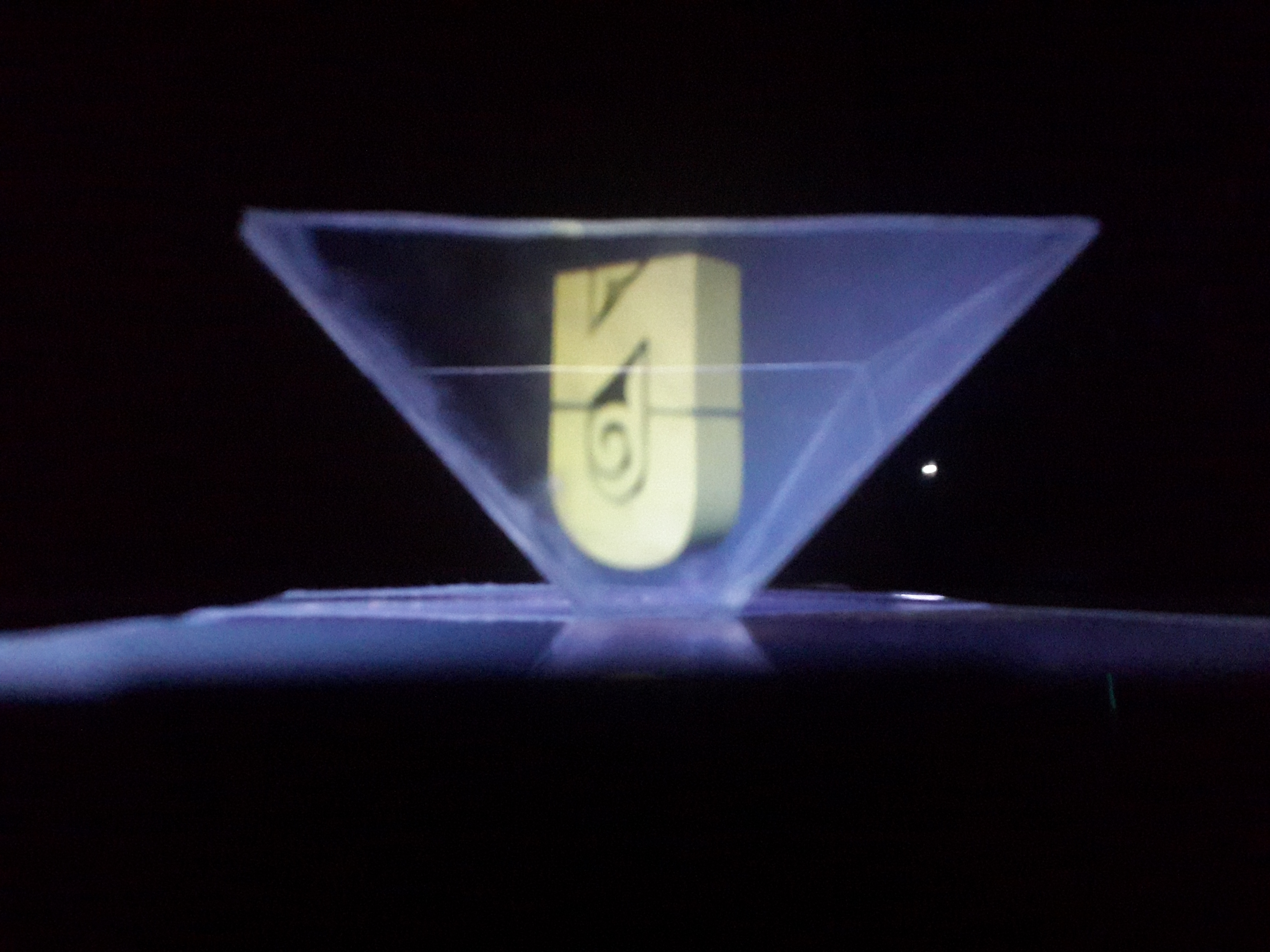 Logo of Nazarbaev University projected by Pyramid Hologram